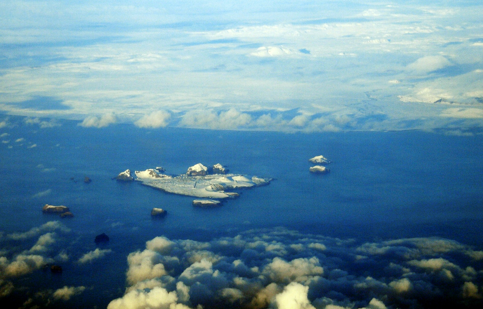 Aerial view of the Westmen Isles, with the Icelandic mainland in the background. Photograph taken from an altitude of 8703 m above sea level. Looking north.